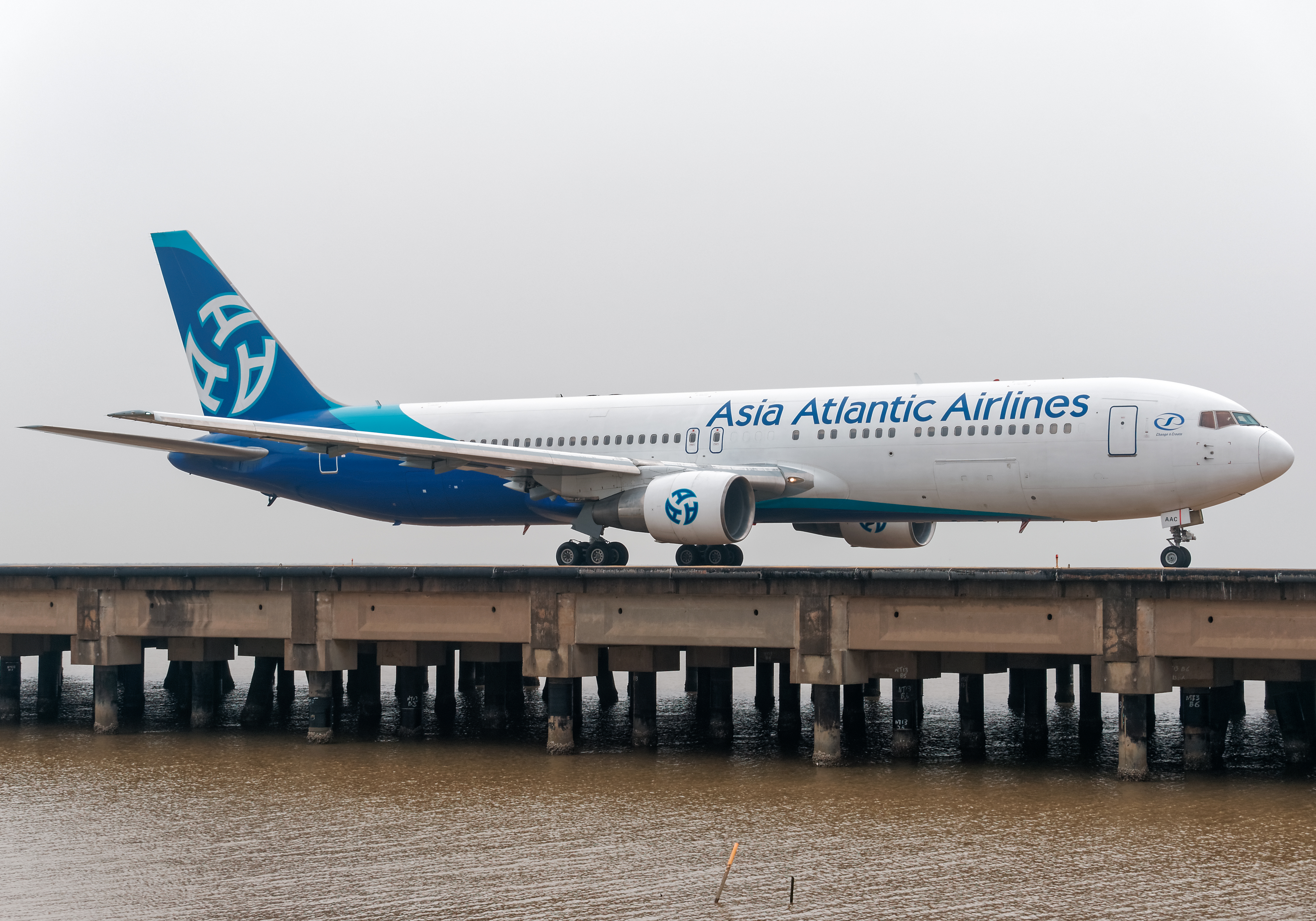 Asia Atlantic Airlines Boeing 767-300 HS-AAC